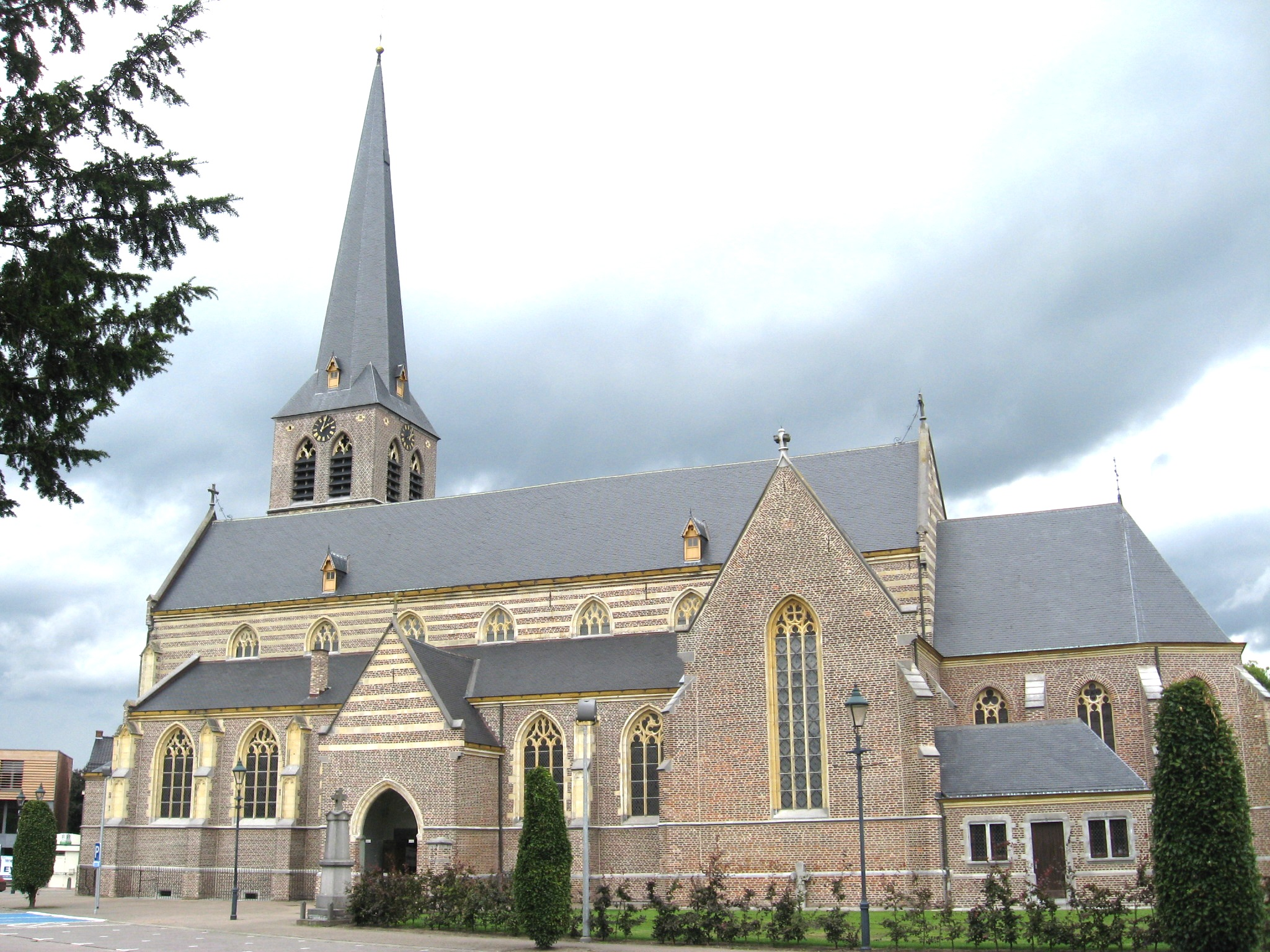 Church of Saint Trudo in Eksel, £Hechtel-Eksel, Limburg, Belgium